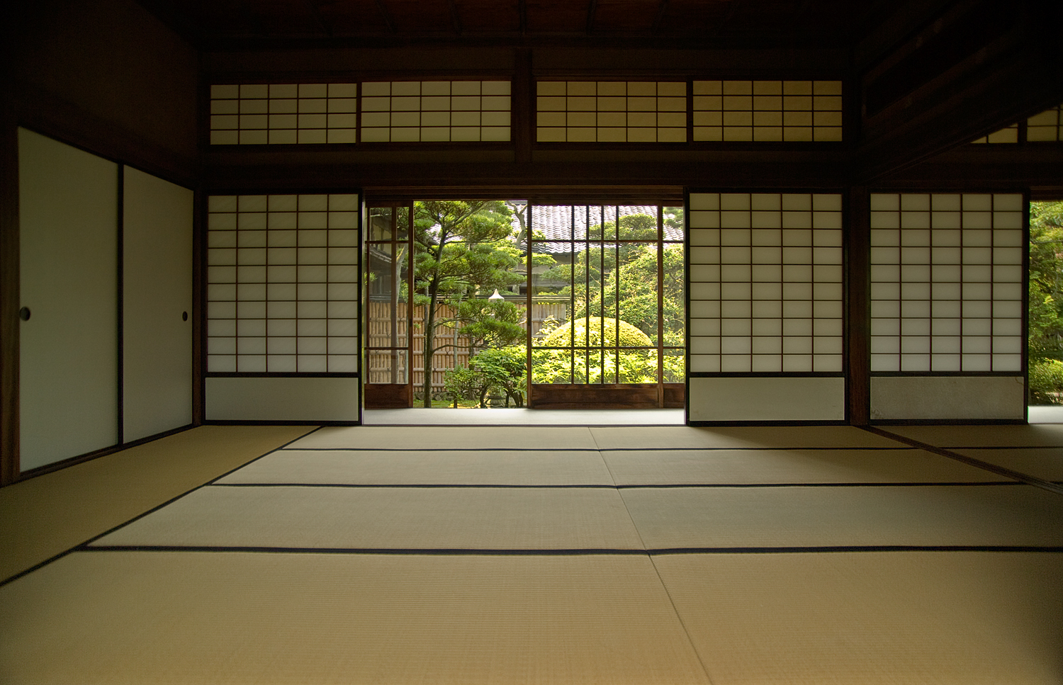 This photograph was taken in the city of Takamatsu, Kagawa prefecture, Japan. This building is at Takamatsu Castle. It appears to be the Hiun-kaku (披雲閣), a Taishō-period building on the site of the original of the same name.